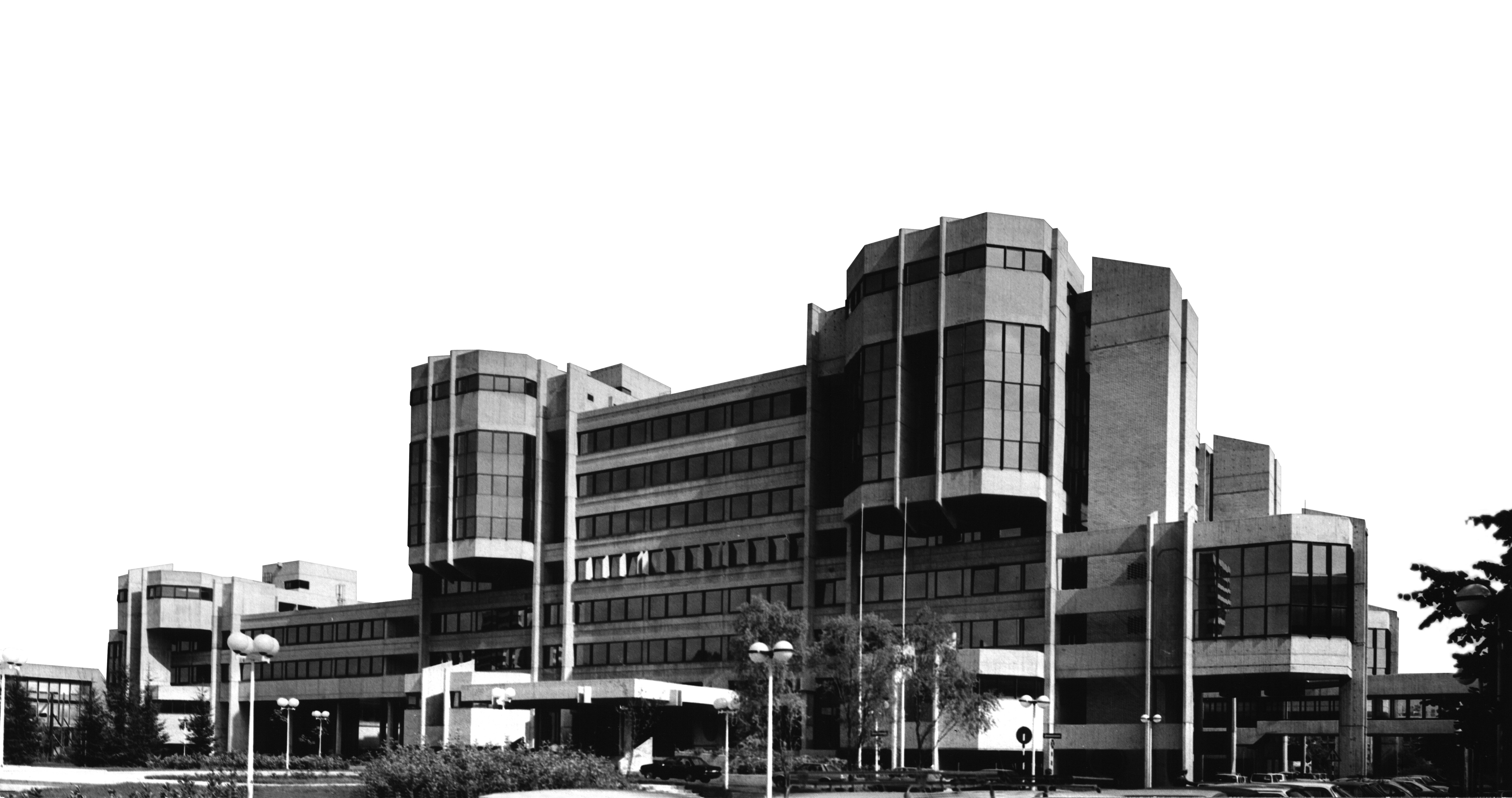 Ljupko Curcic - SIV III, New Belgrade, Serbia